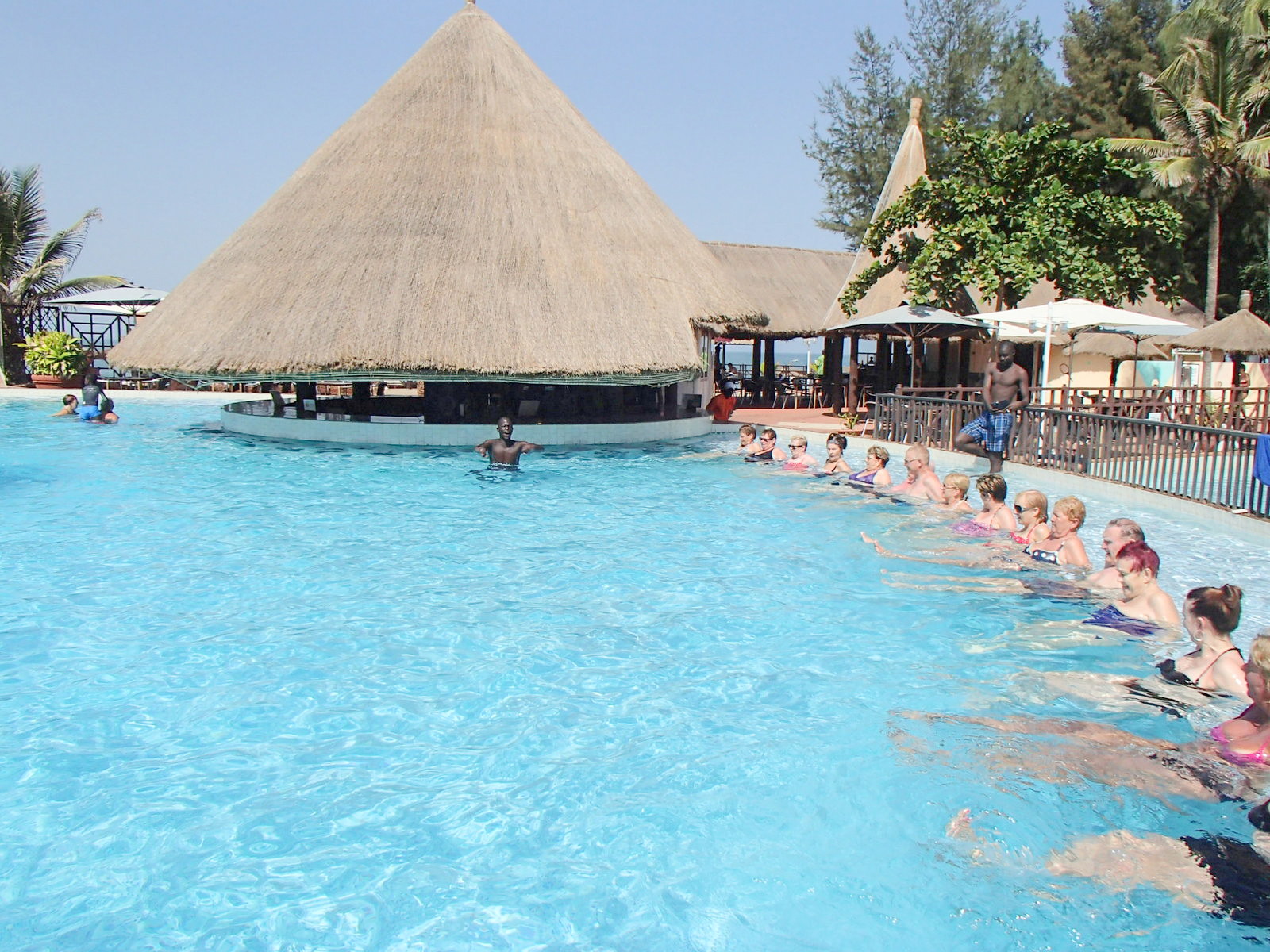 People tourists in swimming pool Senegambia beach hotel Gambia